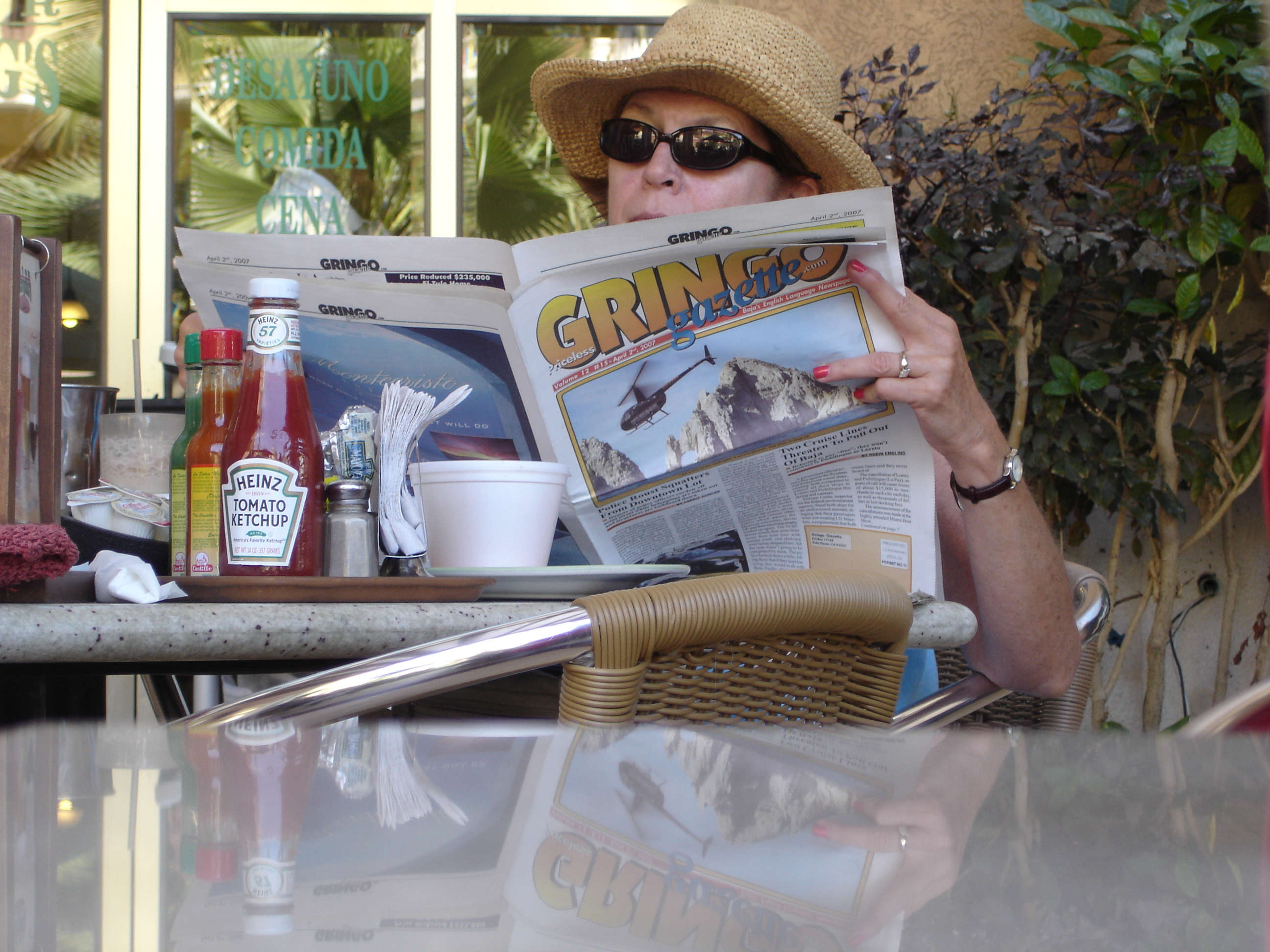 Photograph of a woman reading the Gringo Gazette in Cabo San Lucas, BC Sur, Mexico; April 5, 2007. Taken by myself.